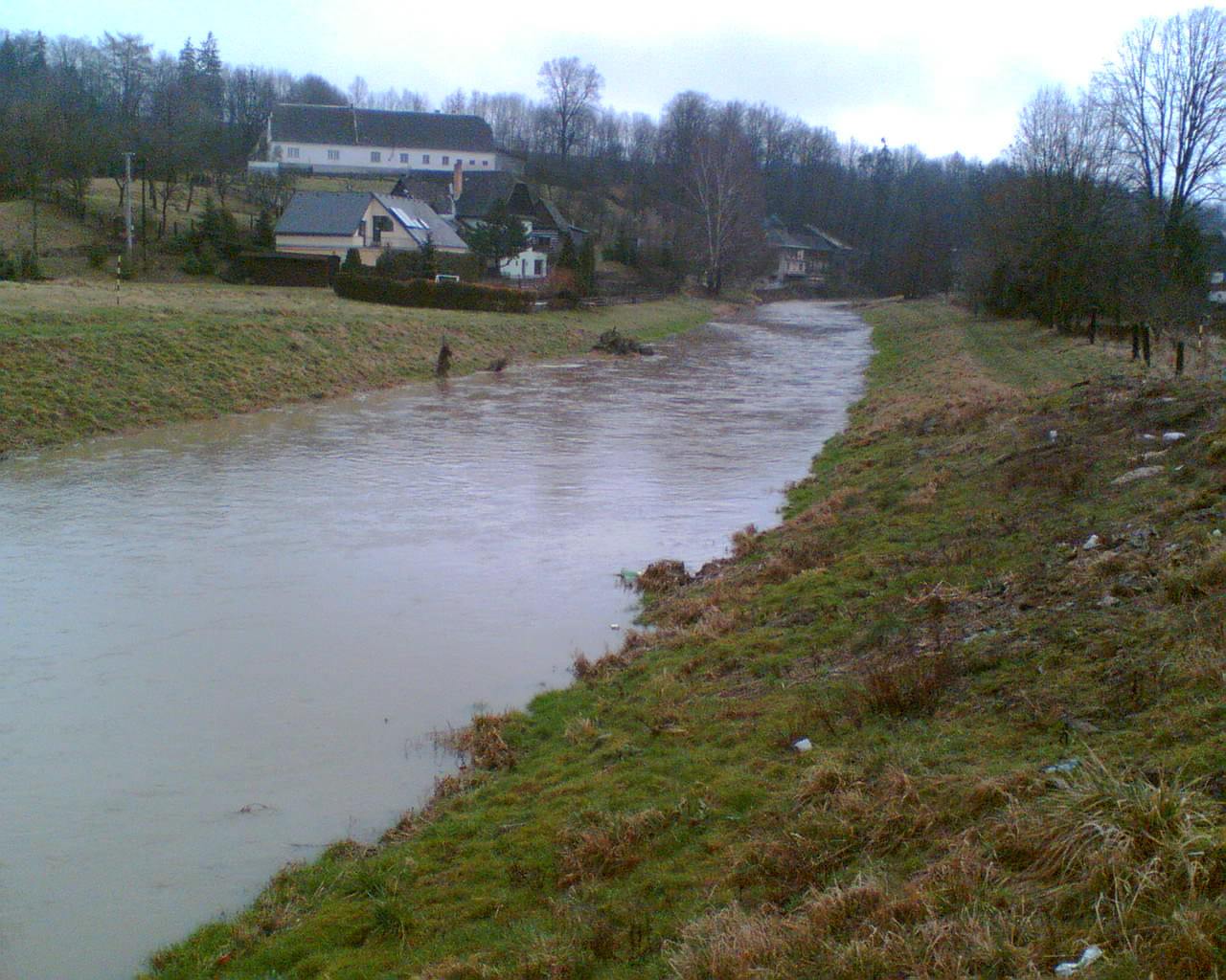 Krasíkov, Ústí nad Orlicí District, Czech Republic.